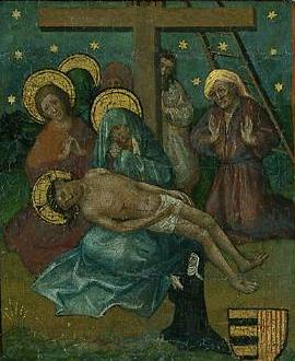 Roermond Passion [detail, Lamentation of Christ with donor portrait of Bela van Mirlaer van Millendonck, abbess of the Cistercian convent of the Virgin Mary in Roermond from 1447].